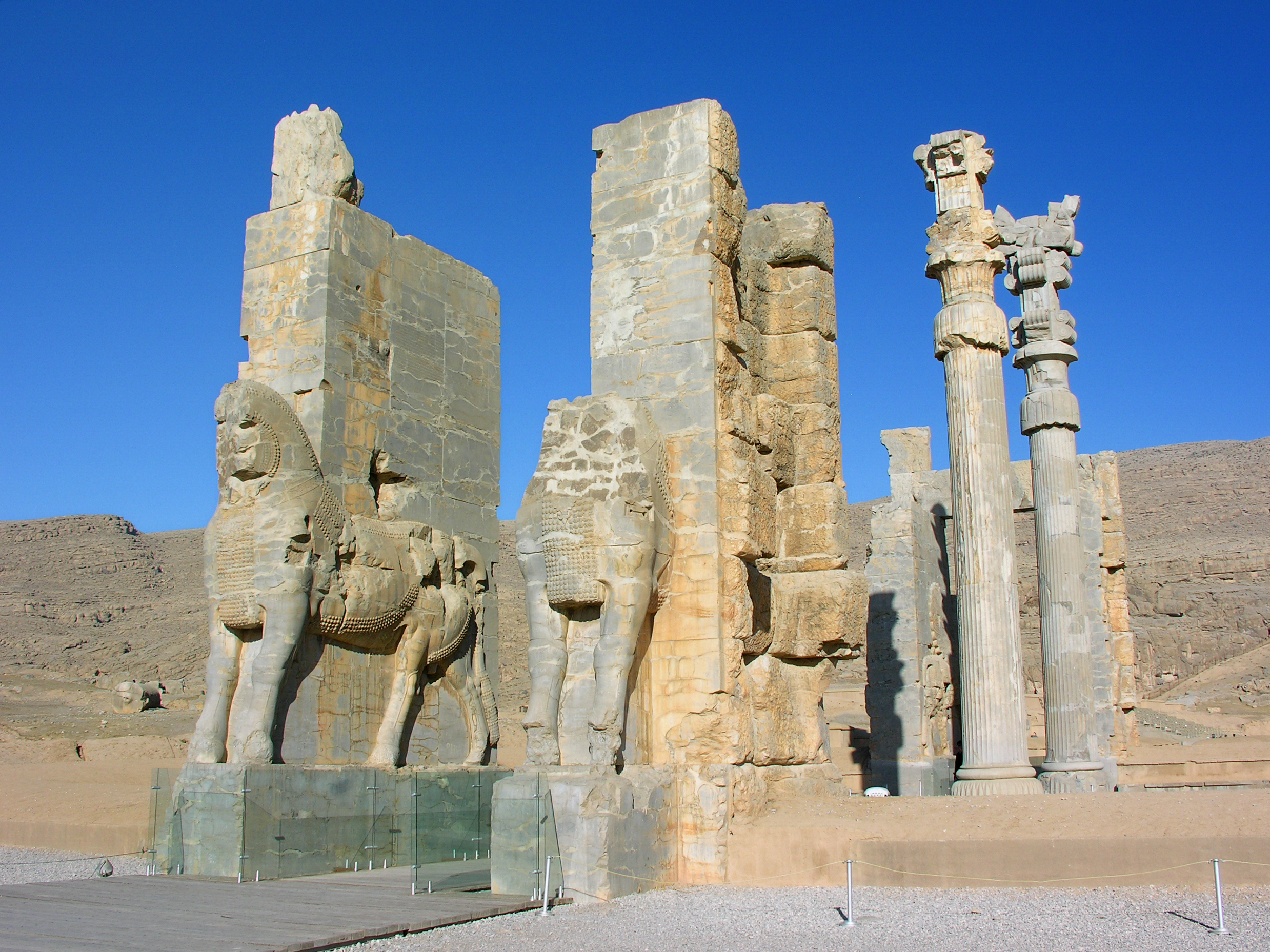 Iran, Gate of all nations